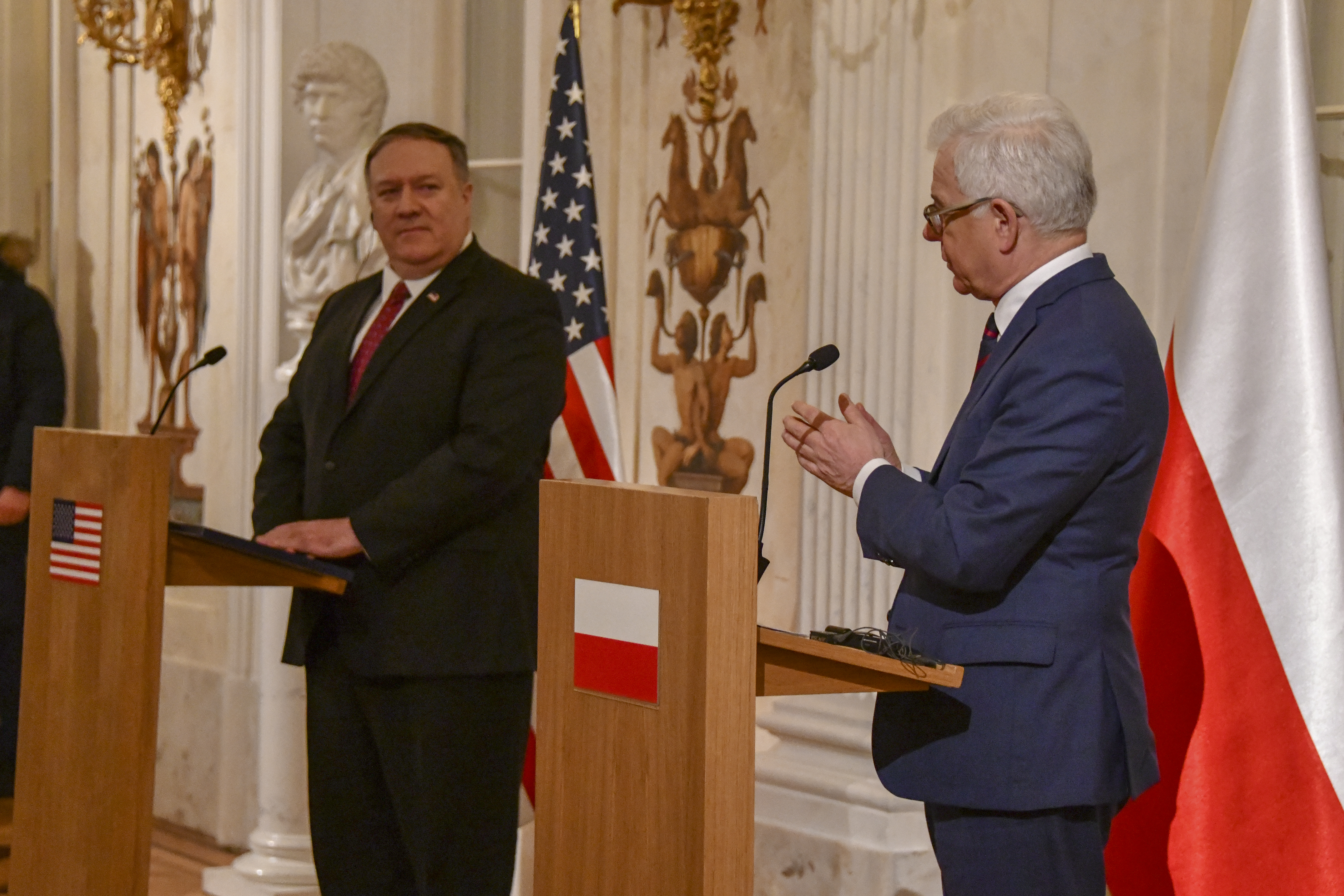 U.S. Secretary of State Michael R. Pompeo participates in a joint conference with Polish Foreign Minister Jacek Czaputowicz in Warsaw, Poland on February 12, 2019. [State Department photo by Ron Przysucha/ Public Domain]